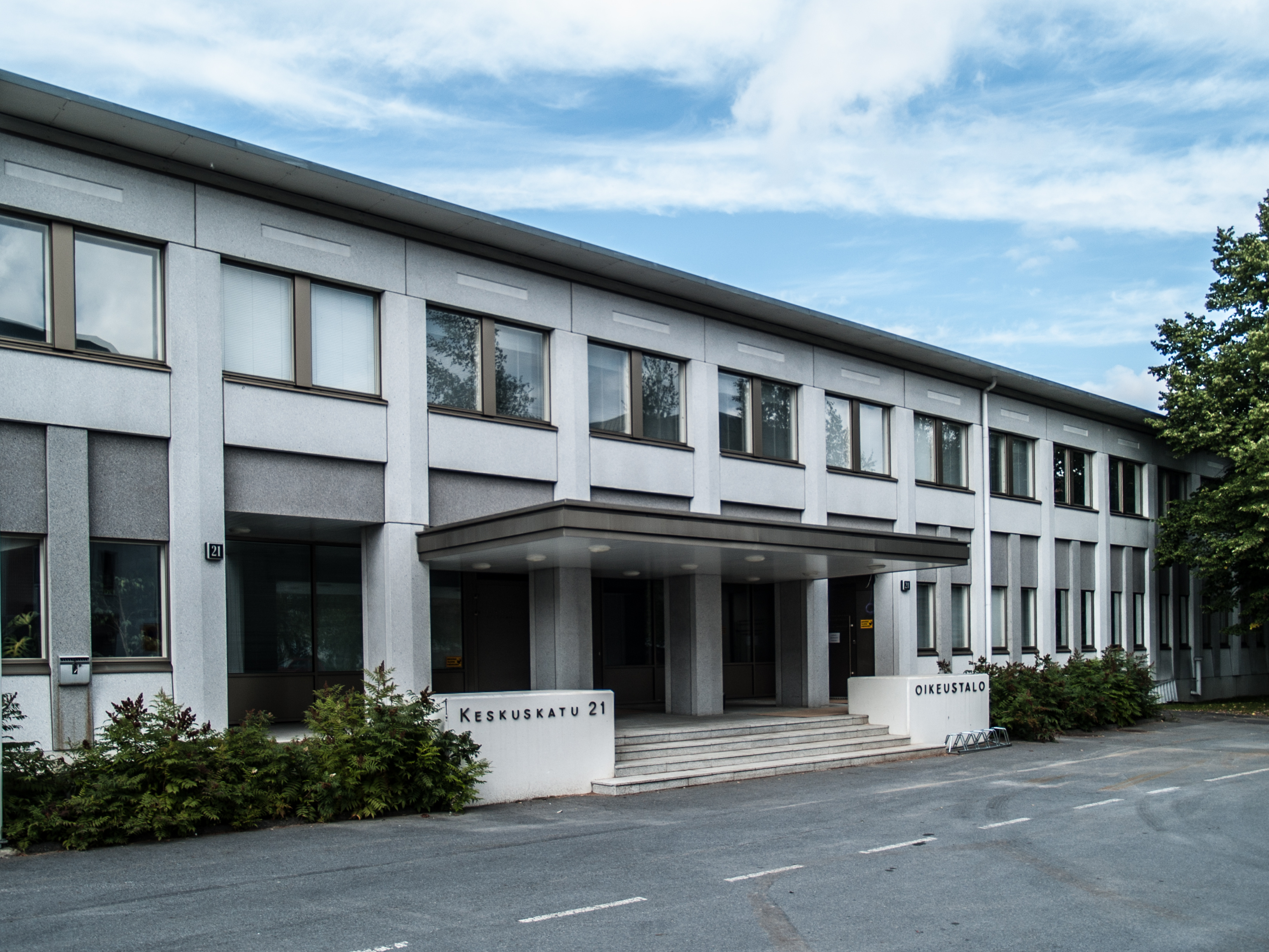 Seinäjoki courthouse on Keskuskatu.